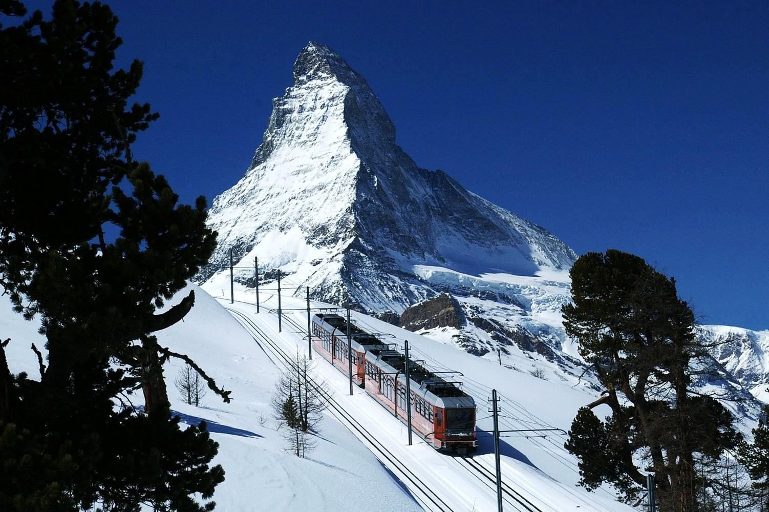 Gornergratbahn and Matterhorn, Zermatt.